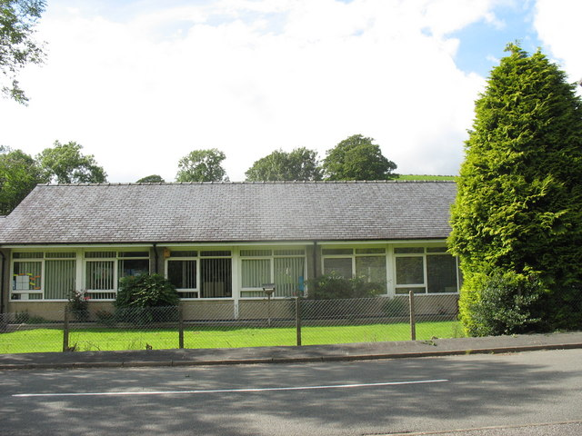 Ysgol Ieuan Gwynedd, Rhydymain Ieuan Gwynedd was the bardic name of Evan Jones [1820-1852], a farm labourer's son from the district, who became a champion of Welsh women's rights. The school has its own web site.